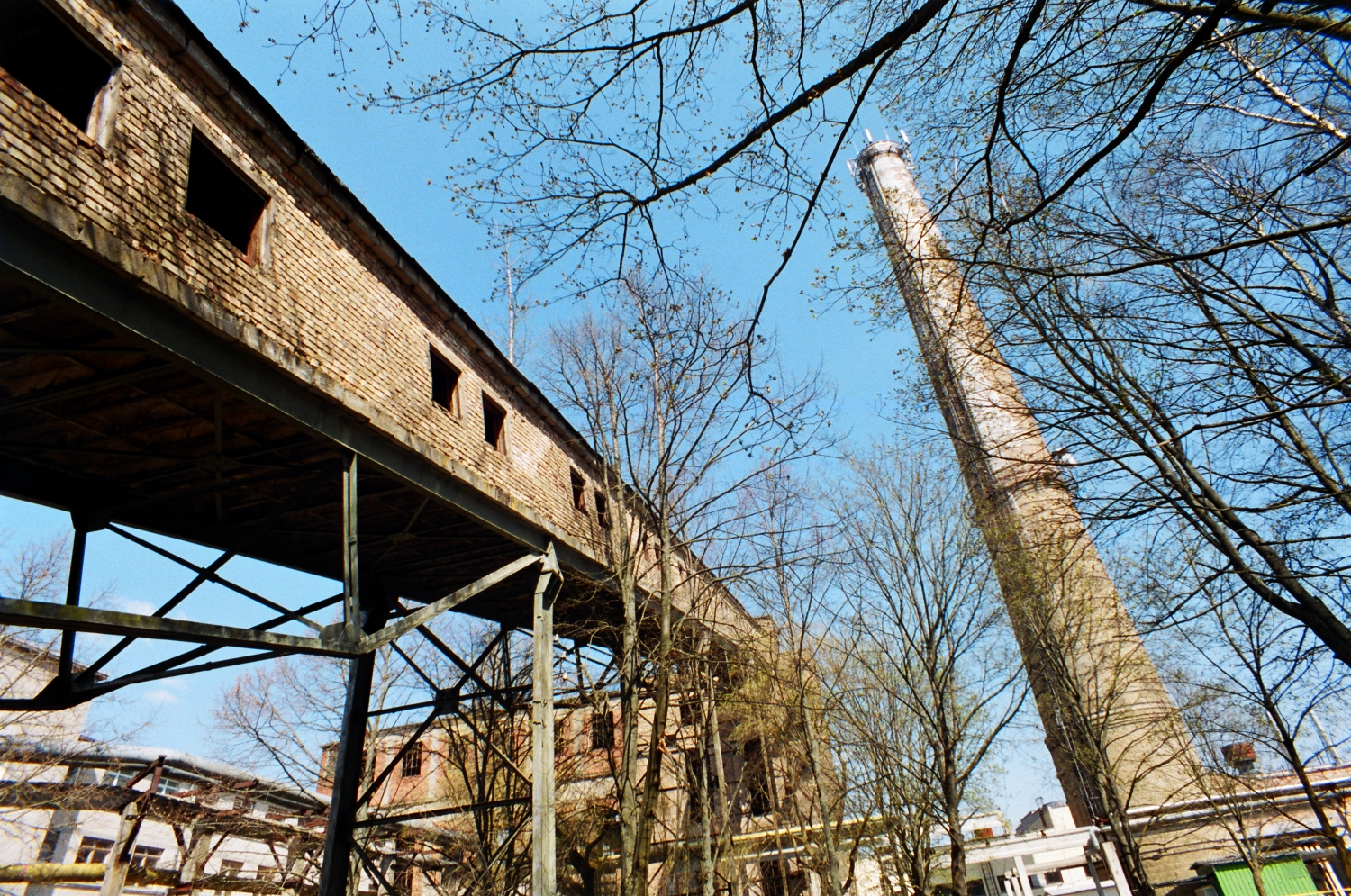 Rėkyva power plant of Šiaulių energija